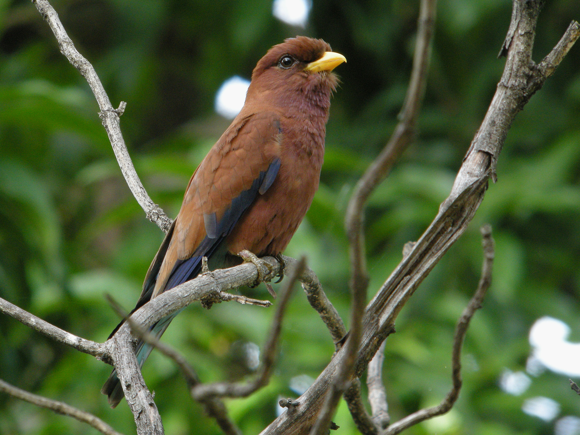 Broad-billed roller (Eurystomus glaucurus glaucurus) at Ankarafantsika, Madagascar. One of the commoner inhabitants of the forests of Madagascar, the Broad-billed roller is easily recognised by its typical series of loud calls. Swarowski 80 HD 30 X, Coolpix P5100 (Adapter DCB)